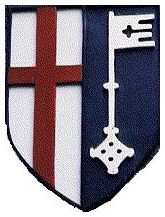 Wappen Pfaffendorf, Koblenz, Germany This file depicts the coat of arms of a German Körperschaft des öffentlichen Rechts (corporation governed by public law). According to § 5 Abs. 1 of the German Copyright law, official works like coats of arms are in the public domain. Note: The usage of coats of arms is governed by legal restrictions, independent of the copyright status of the depiction shown here.